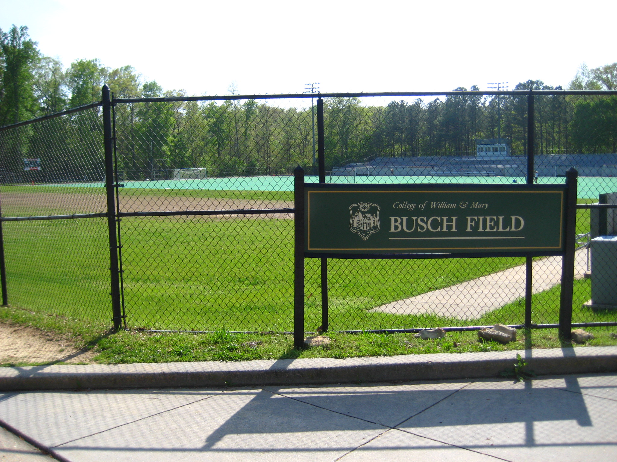 Busch Field complex at the College of William & Mary in Williamsburg, Virginia, USA.